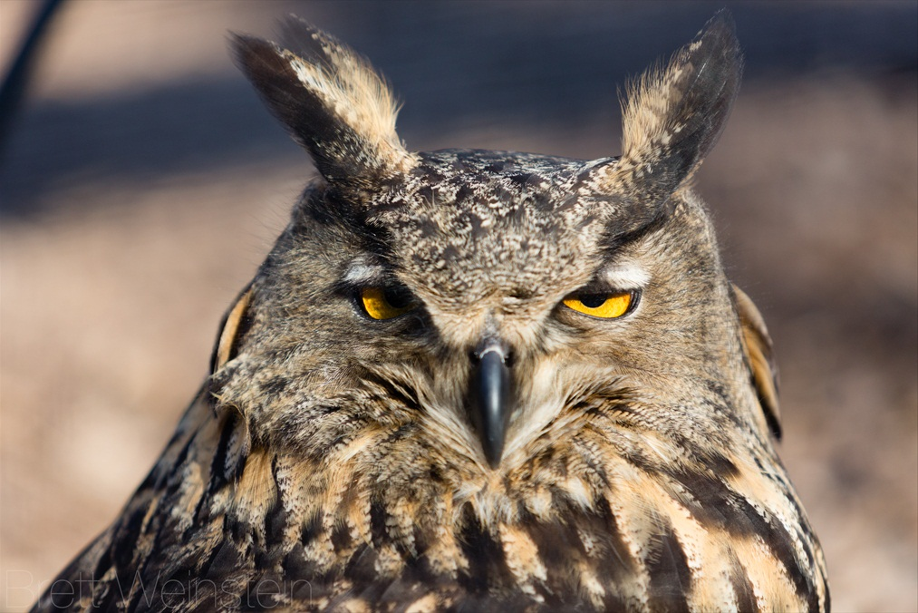 Sleepy Eurasian Eagle-Owl